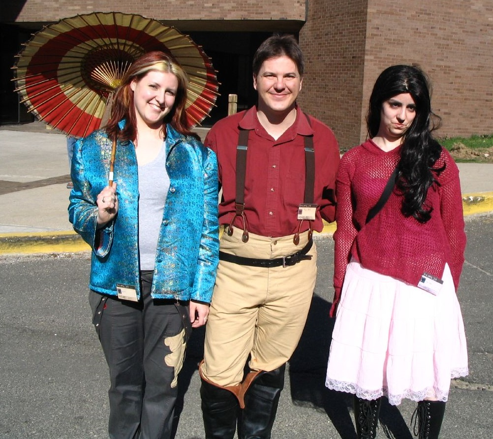 Firefly cosplay.